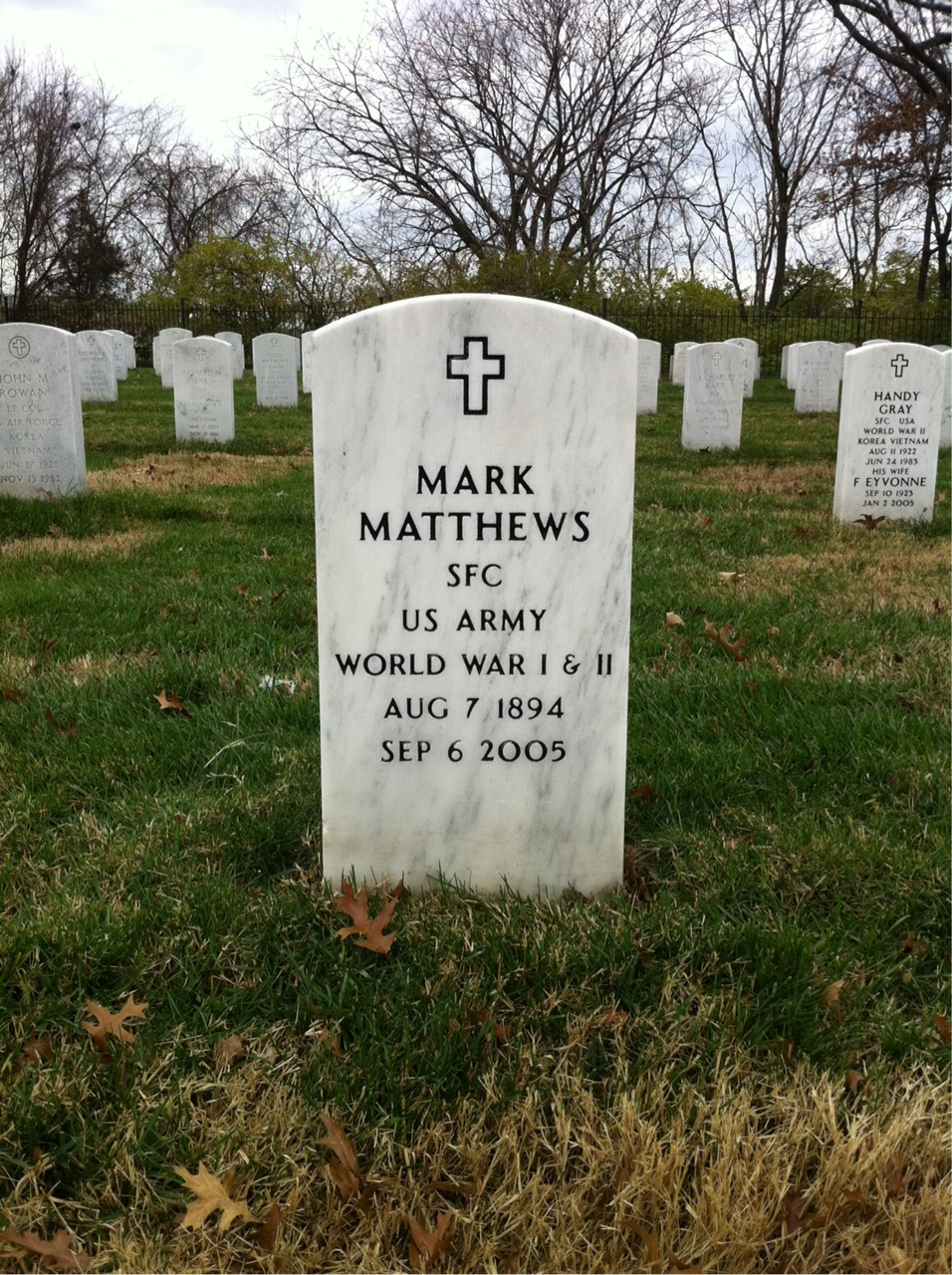 Grave of Mark Matthews at Arlington National Cemetery